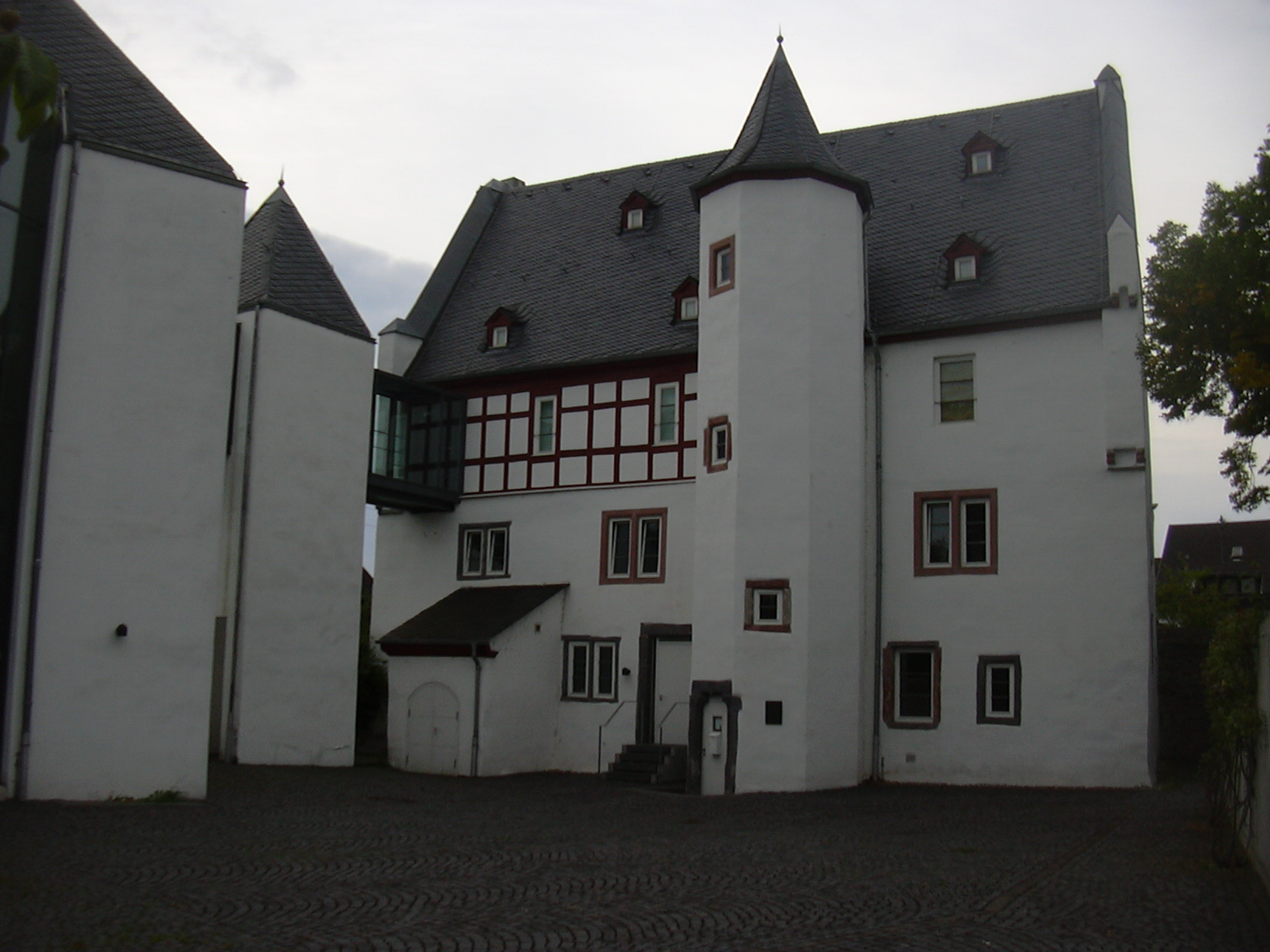 Lahnstein theatre, in historic residence (Rhine Valley, Germany)